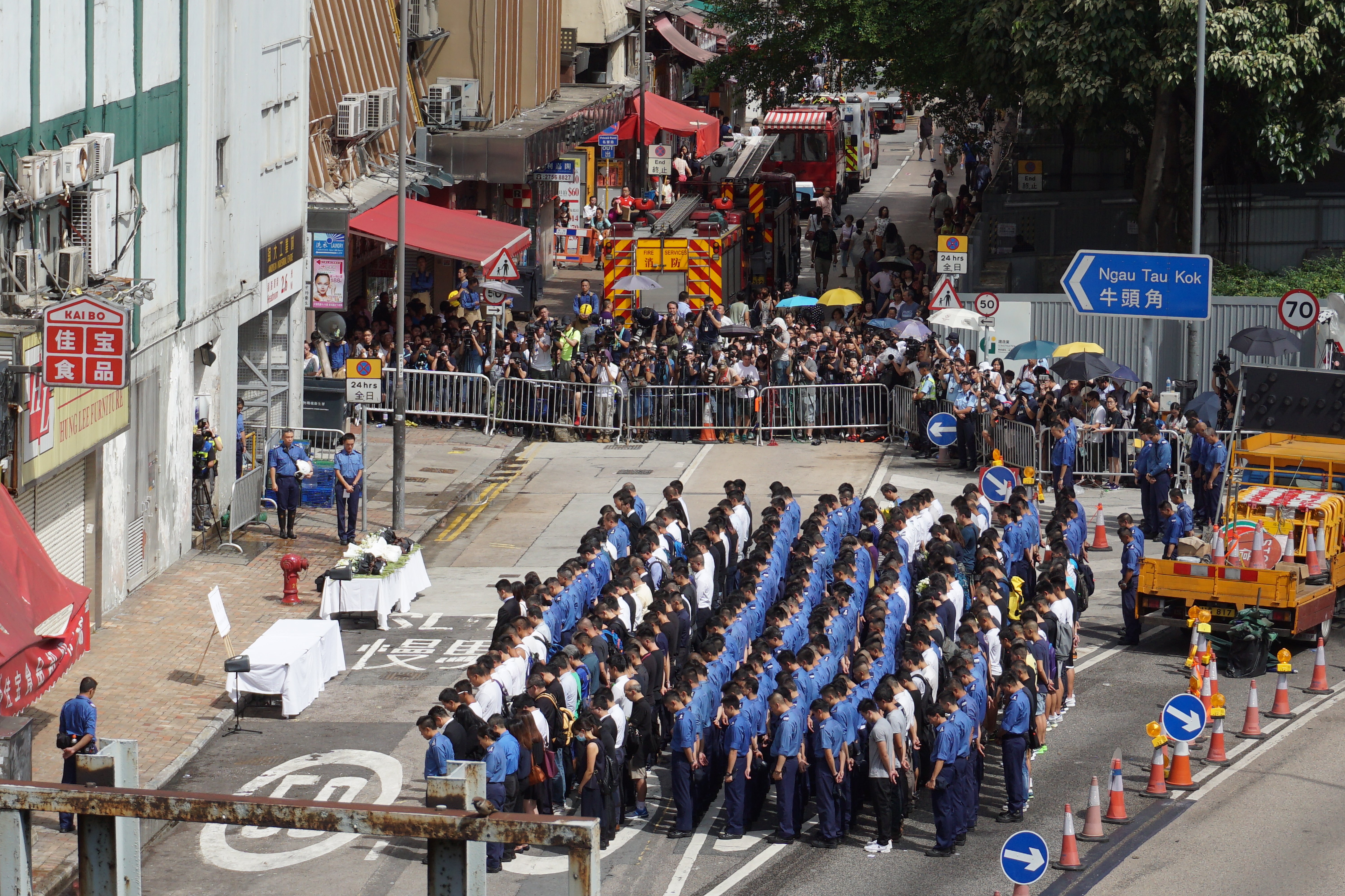 Amoycan Industrial Centre in Kowloon Bay, Hong Kong.